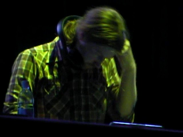 Aphex Twin at the Traffic - Torino Free Festival 2005. Not a great picture but the article really needs an image.